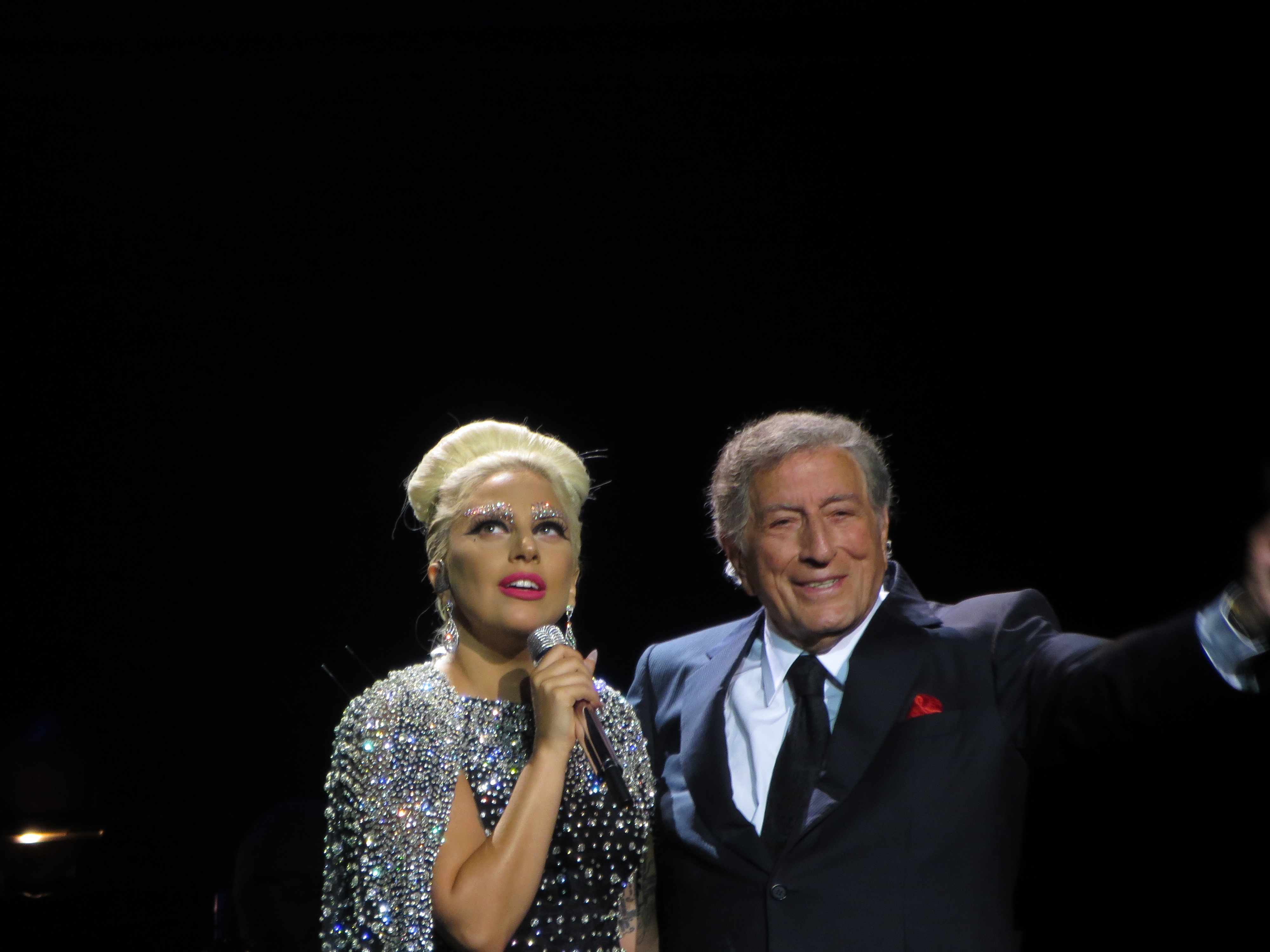 Tony Bennett & Lady GaGa, Cheek to Cheek Tour, London Royal Albert Hall, 8 June 2015.